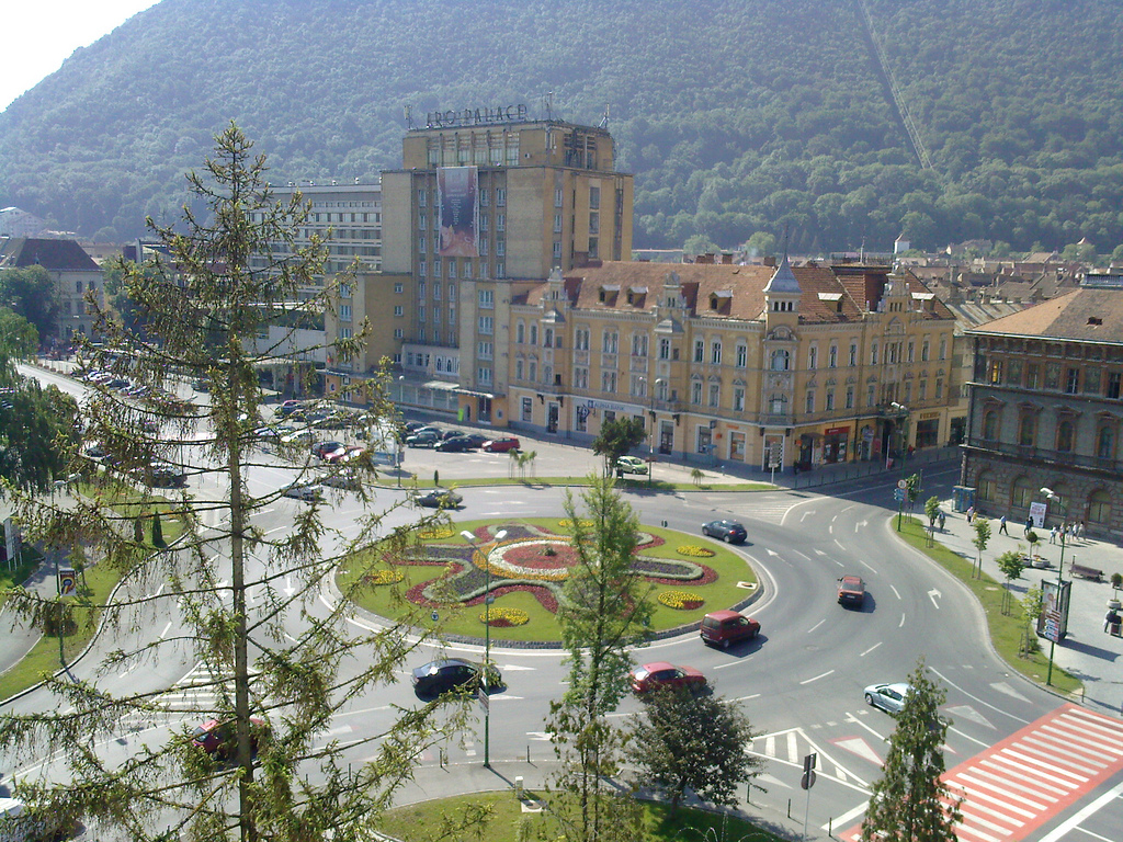 View of Brasov